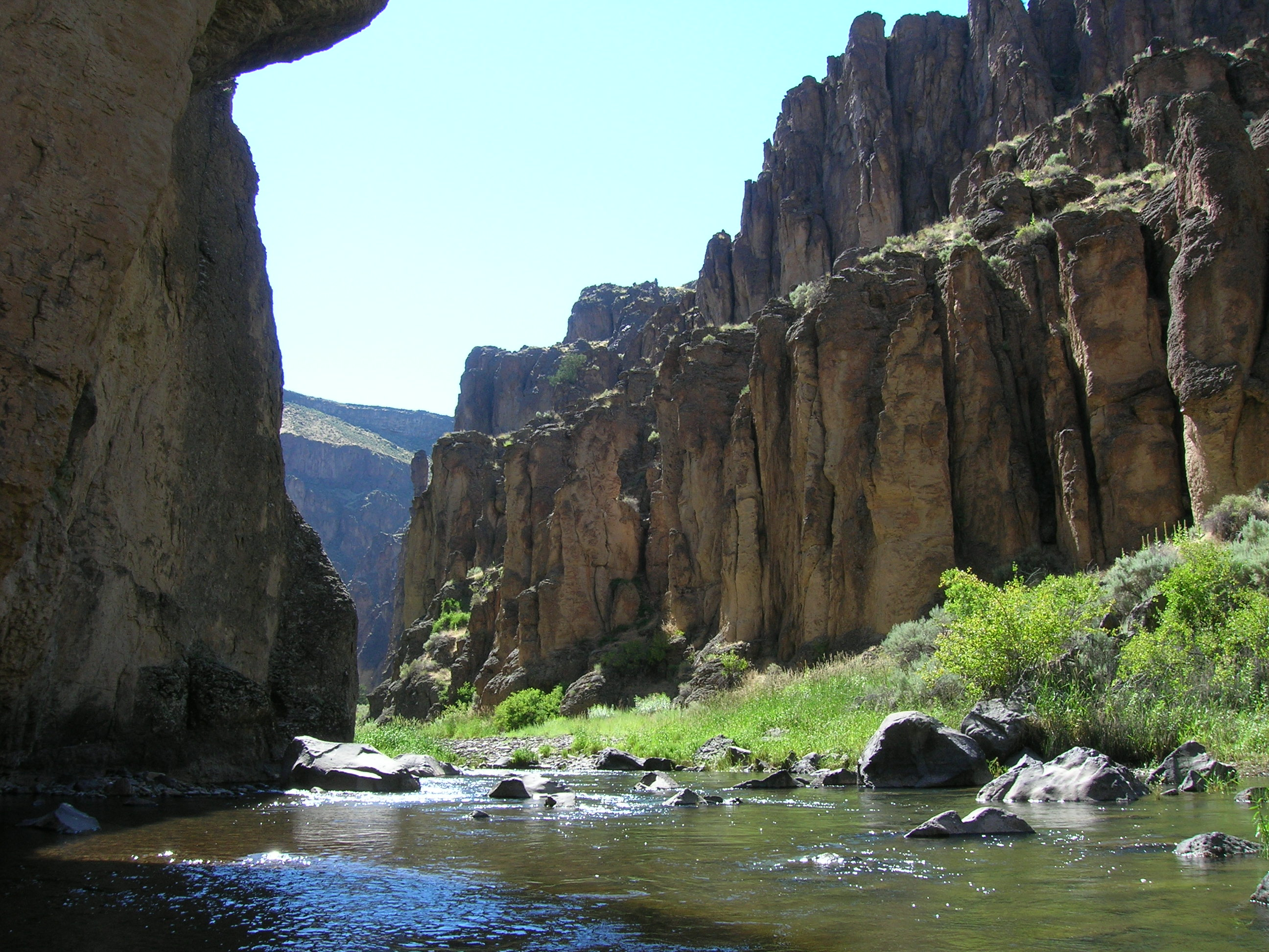 Under the sponsorship of Senator Frank Church of Idaho, Congress created the National Wild and Scenic Rivers System in 1968 to preserve certain rivers with outstanding natural, cultural, and recreational values in a free-flowing condition for the enjoyment of present and future generations. More than 25 miles (40 km) of Sheep Creek are designated wild, from the confluence with the Bruneau River to the upstream boundary of the Bruneau-Jarbidge Wilderness. Learn more